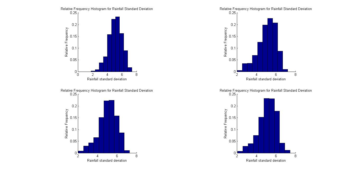 Four histograms for rainfall standard deviation for a specific region, using bootstrapping with uniform distribution for re-sampling.